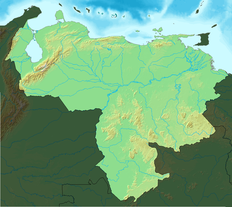 Map of Venezuela Bounding box West -73.6°, South 0.4°, East -59.6°, North 12.8°.